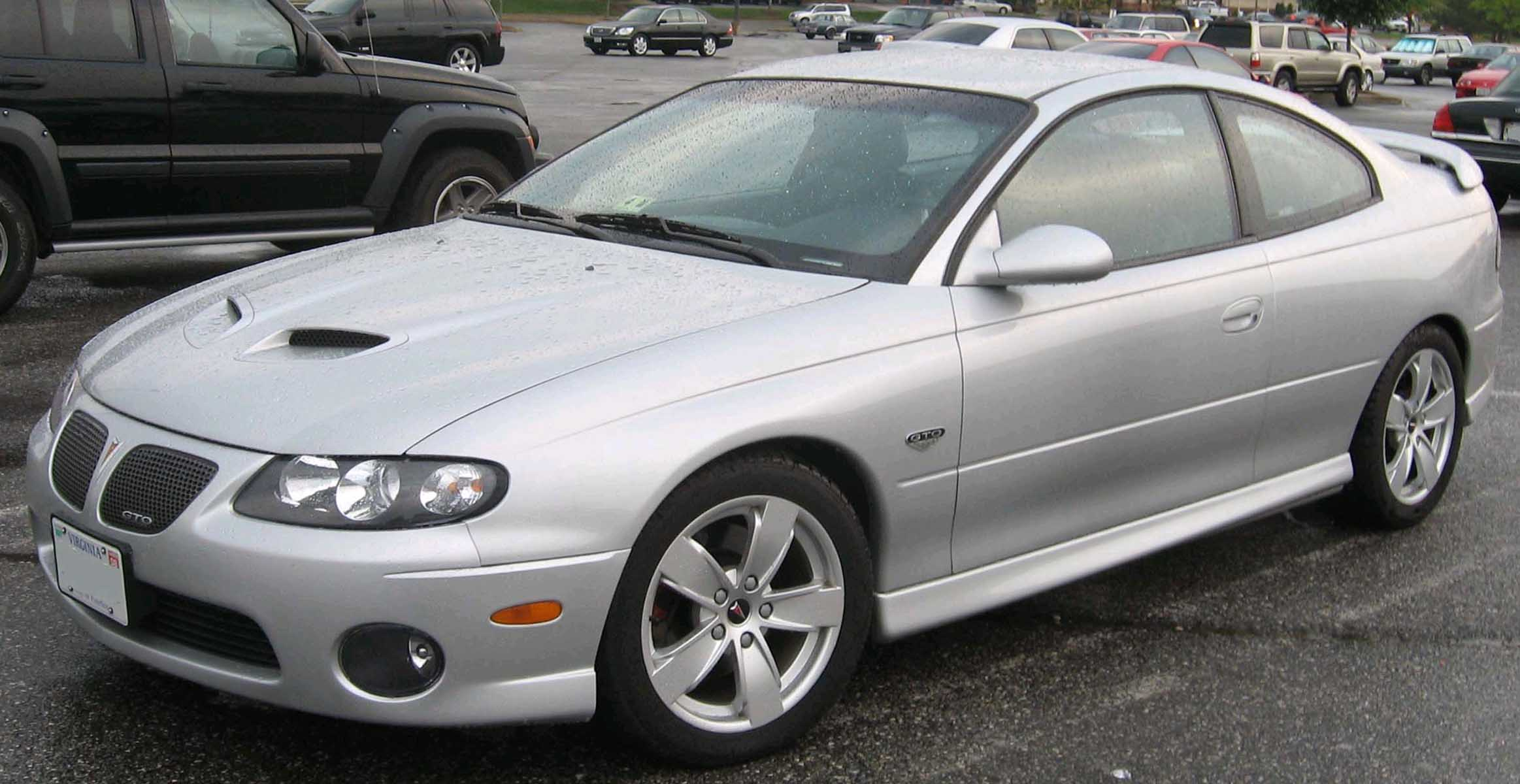 2006 Pontiac GTO photographed in USA.